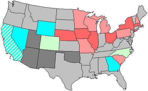 Summary of party change of U.S. house seats in the 1892 House election. Stripes indicate a tie between the gains of two or more parties. Legend: 6+ Democratic seat pickup 3-5 Democratic seat pickup 1-2 Democratic seat pickup 1-2 Republican seat pickup 3-5 Republican seat pickup 6+ Republican seat pickup 1-2 Populist seat pickup 3-5 Populist seat pickup Note: years ending in 2 may have inconsistent results due to redistricting.